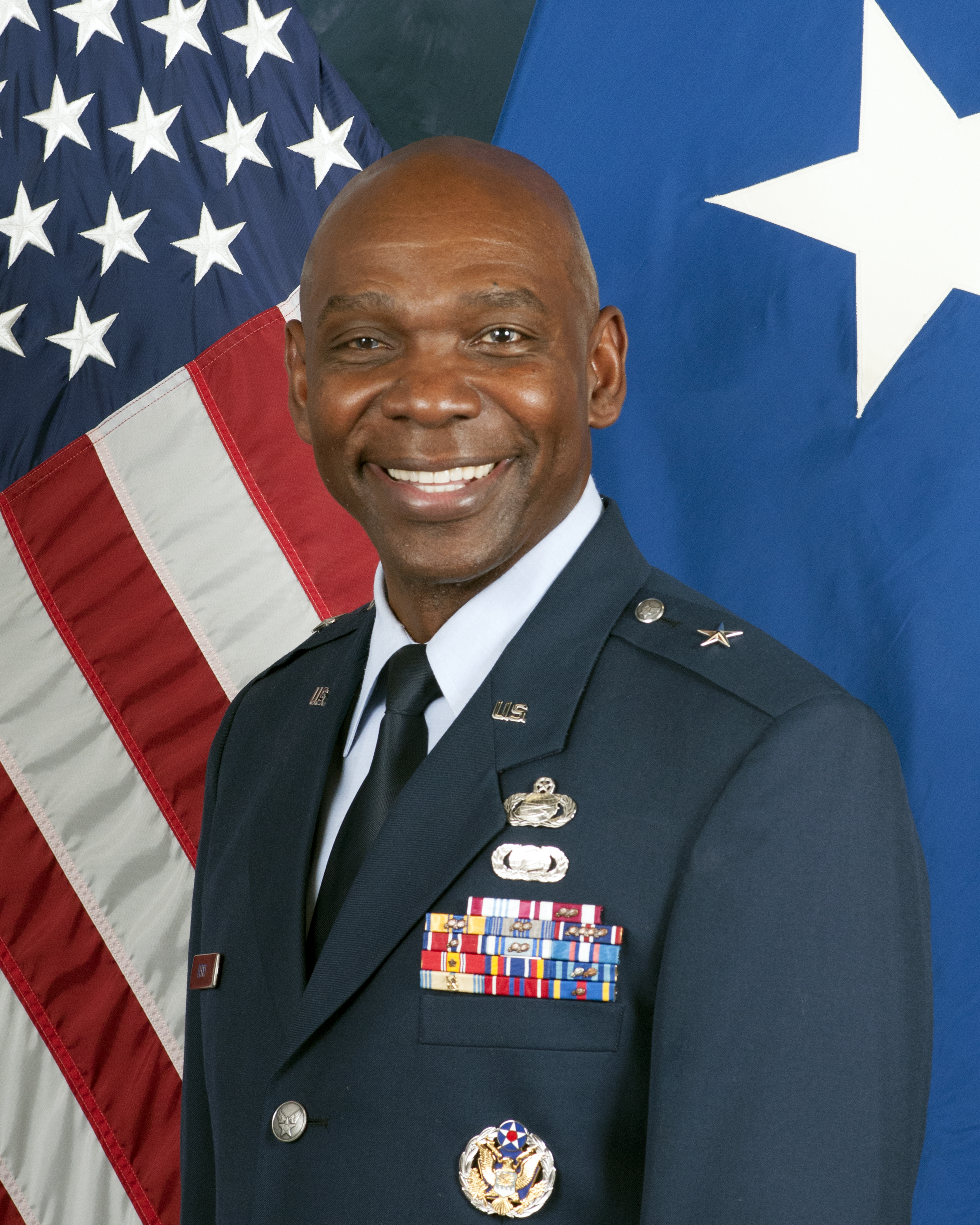 Nevada Adjutant General